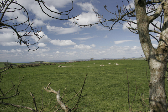 Kingston Russell stone circle. Kingston Russell stone circle lies on the uplands to the south east of the Bride Valley above Ashley Chase. This shot was taken looking west towards Golden Cap which is just visible in the centre, just below the horizon. The far coastline is that of East Devon, some 17 miles away.